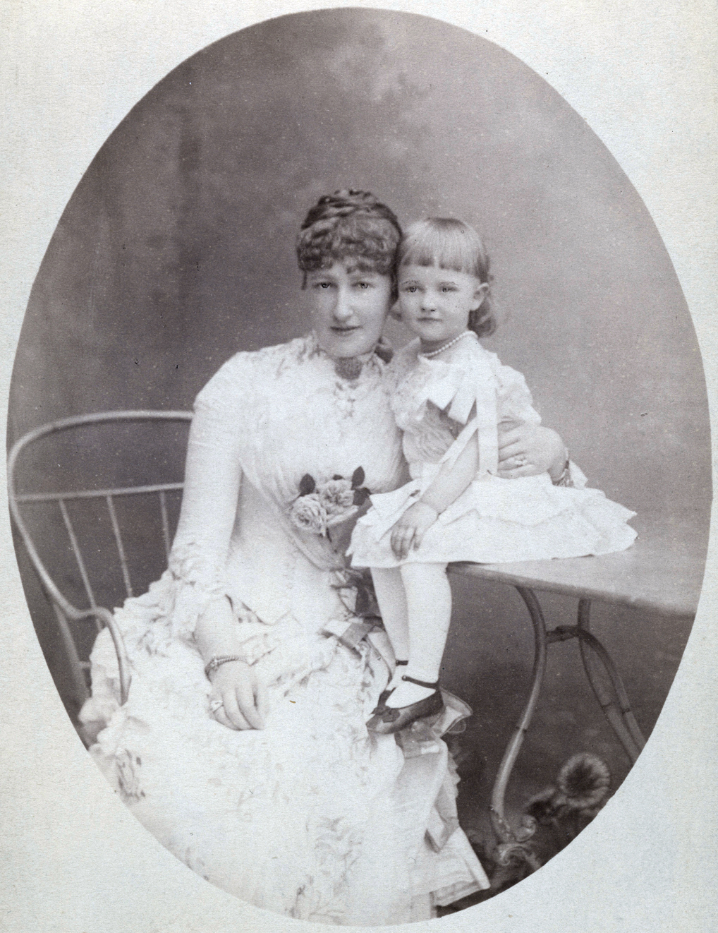 Stéphanie of Belgium and her daughter Elisabeth